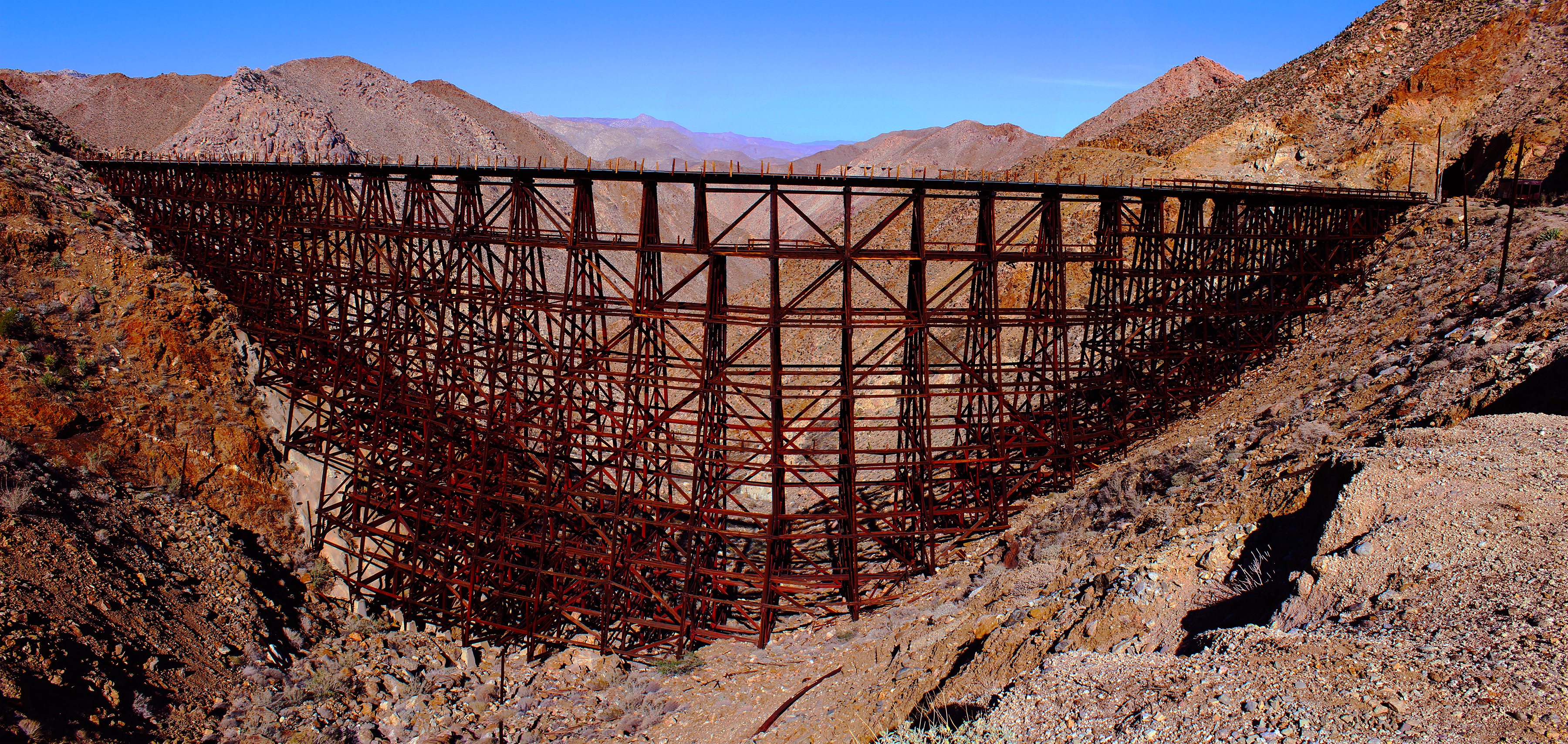 A nice ride to do